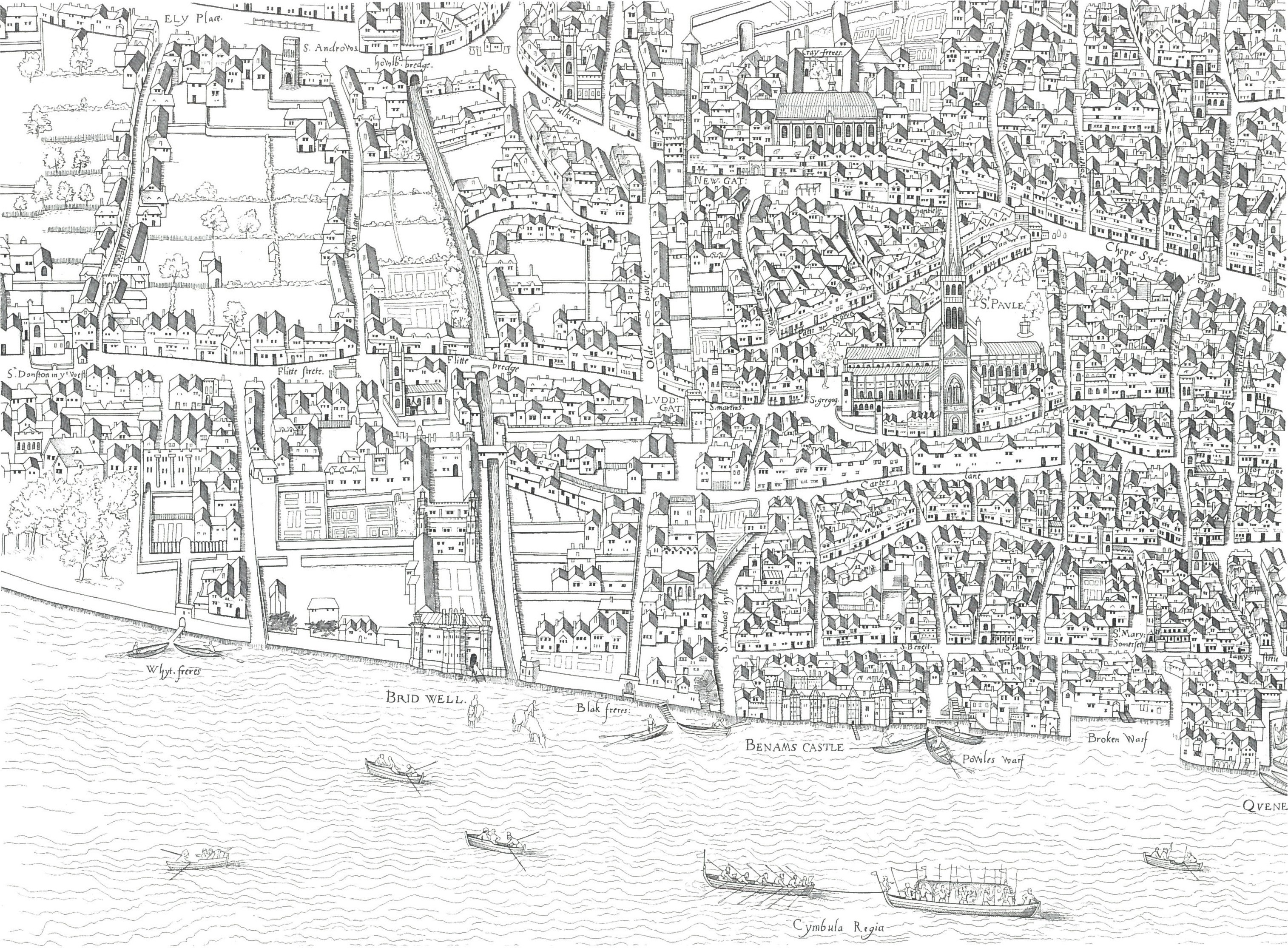 Plate from the "Copperplate" map of London, 1550s, showing the western City area